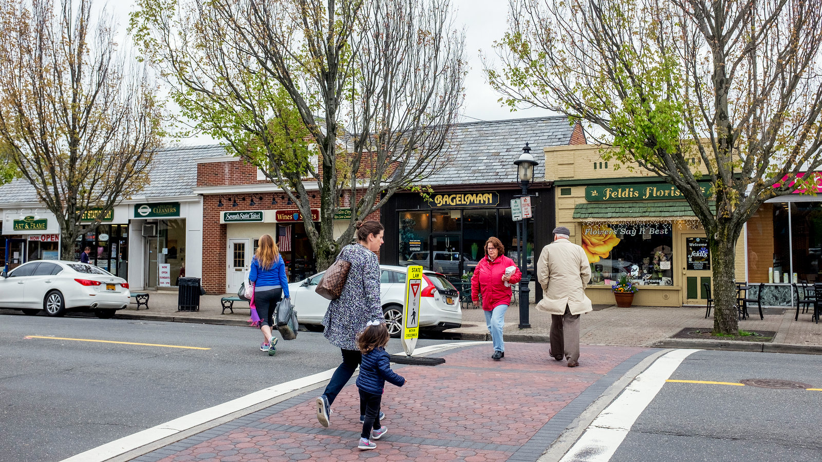 A brief street view of Downtown Garden City, courtesy of the New York Times.